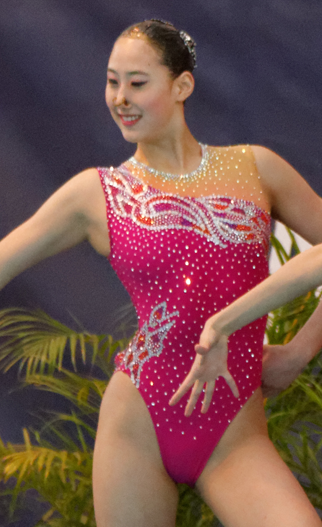 Synchronised swimmer Gu Xiao at the Open Make Up For Ever 2013 in France